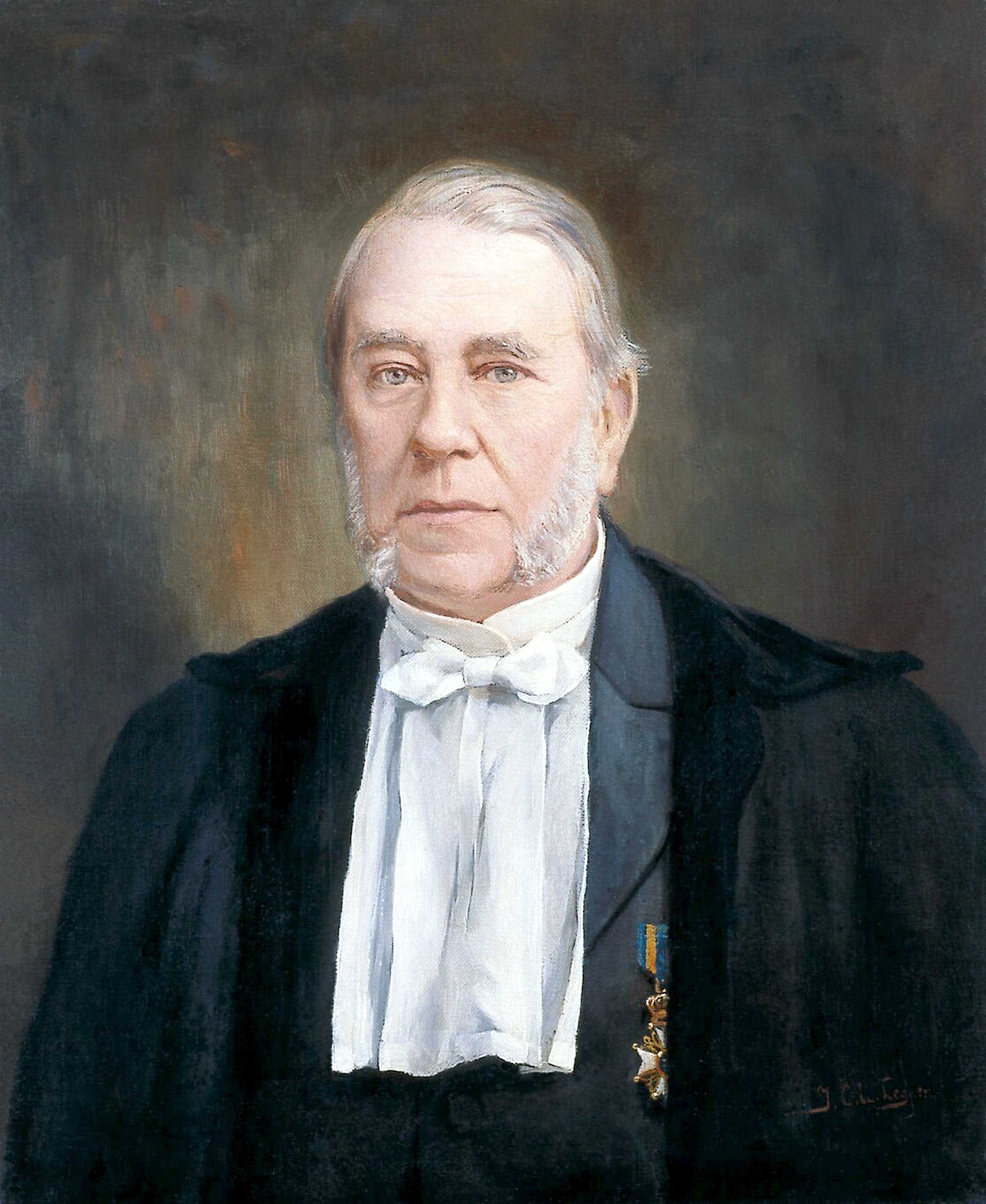 Jean Abraham Chrétien Oudemans (1827-1906) Dutch astronomer